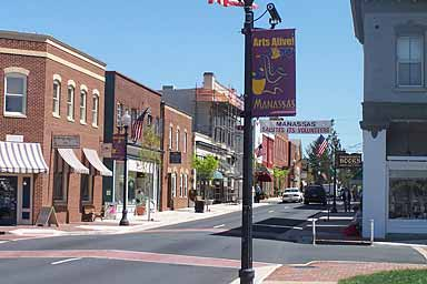 View of downtown Manassas, Virginia looking east on Center Street.